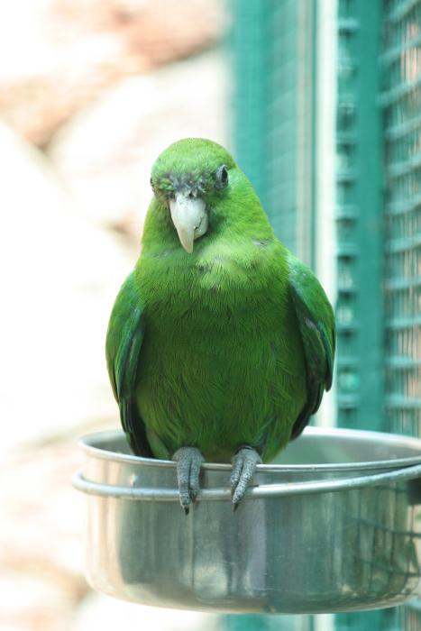 A female Blue-bellied Parrot (also known as Purple-bellied Parrot) at Walsrode Bird Park, Germany.